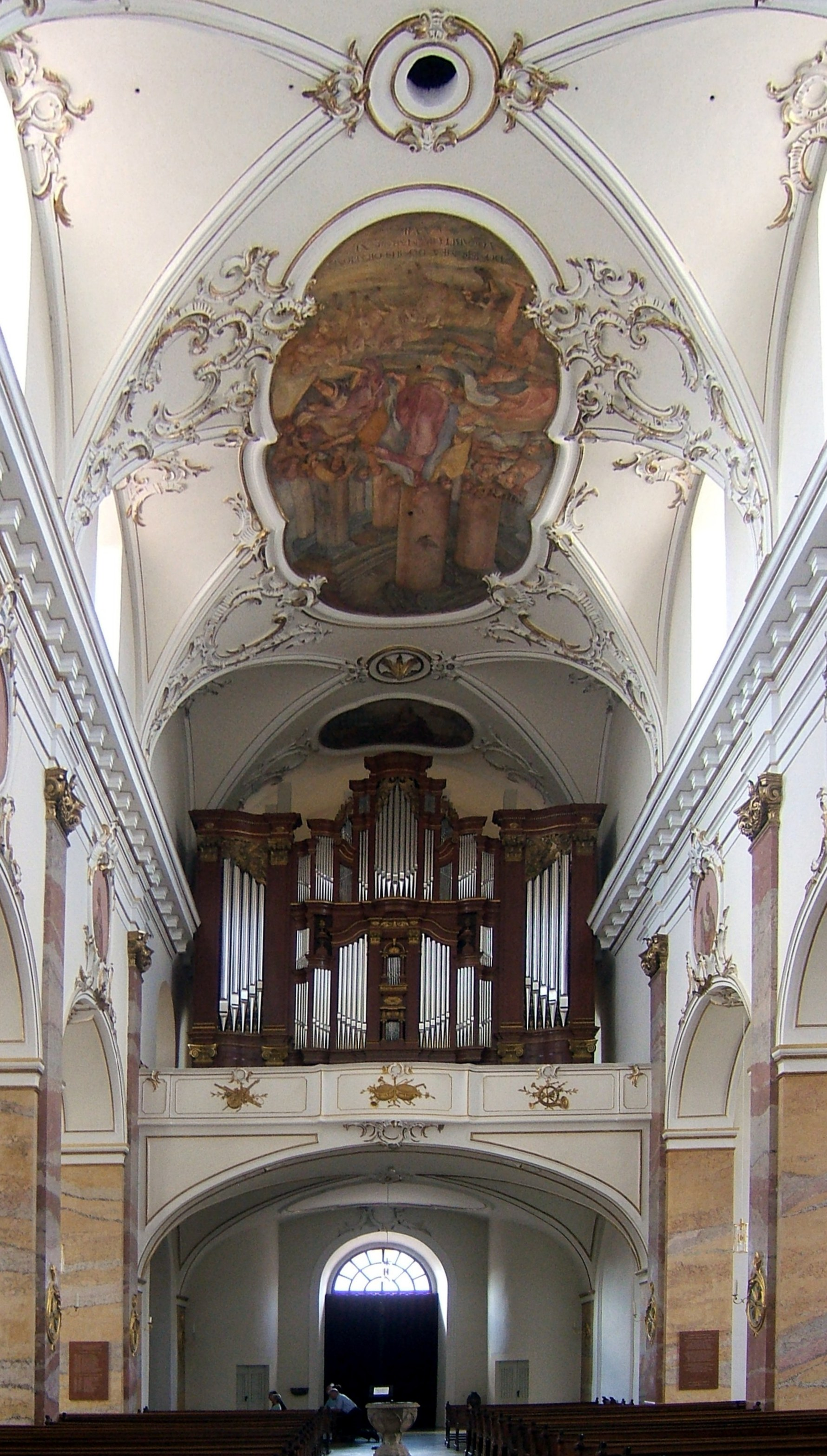 St. Blaise's Church in Fulda.